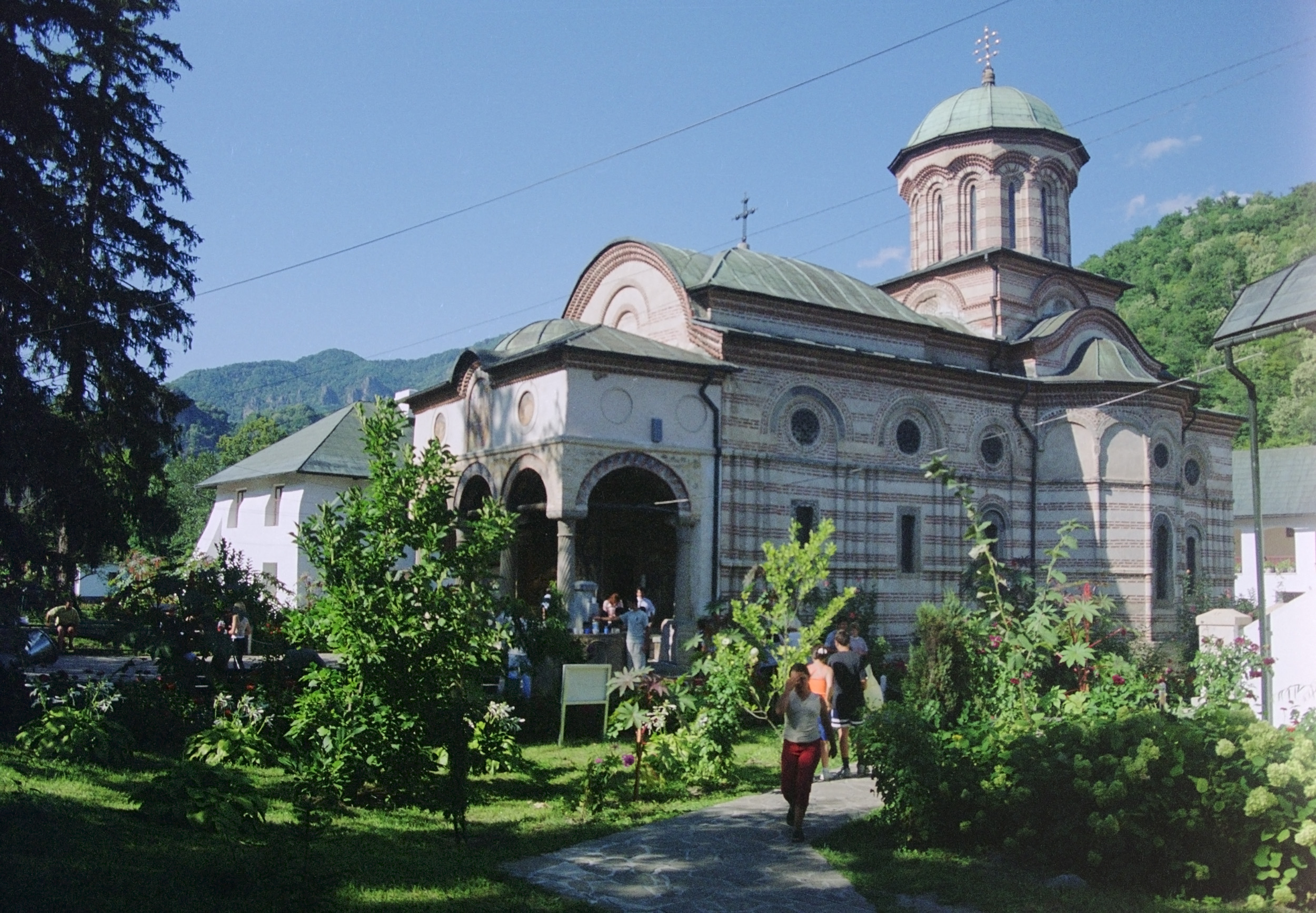 Cozia monastery, Romania